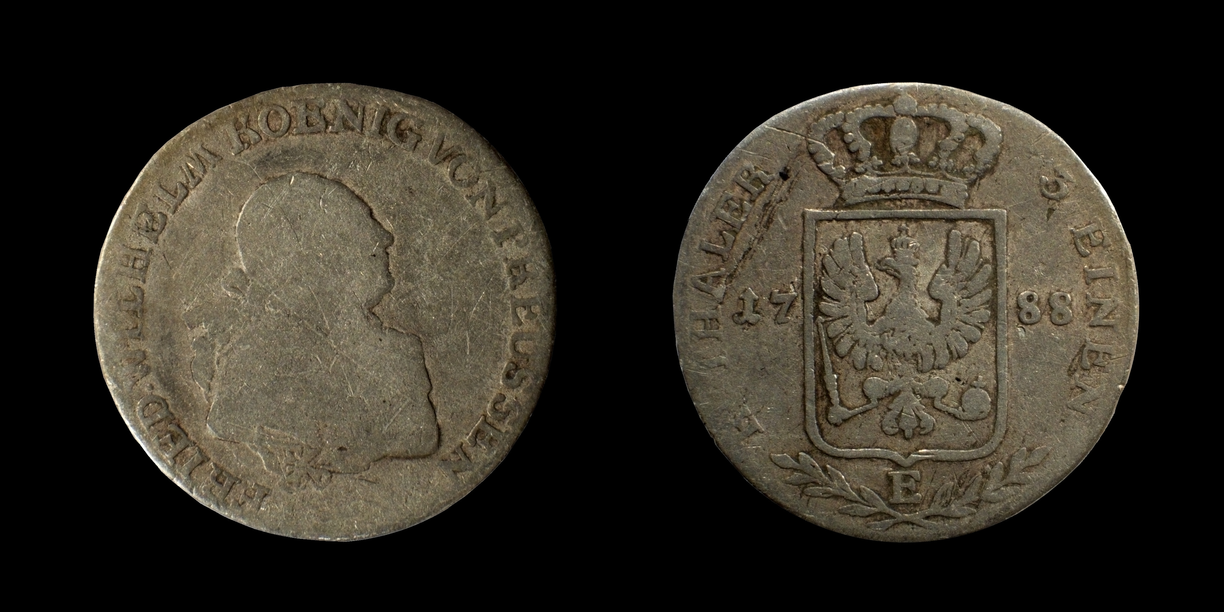 Prussia, King Friedrich Wilhelm II., 1/3 Thaler 1788 E. Diameter is about 29 mm.